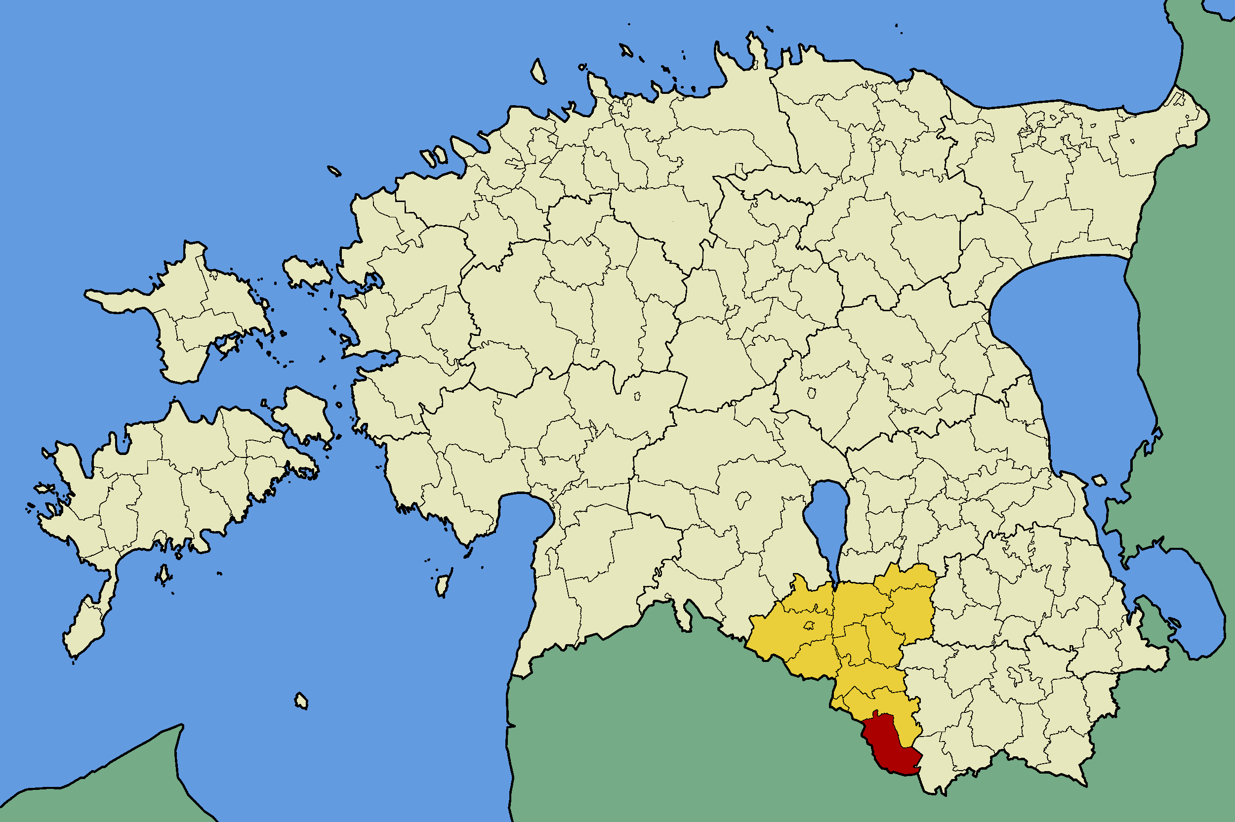 Map of Estonia with borders of municipalities (parishes). Valga county and Taheva municipality emphasized.